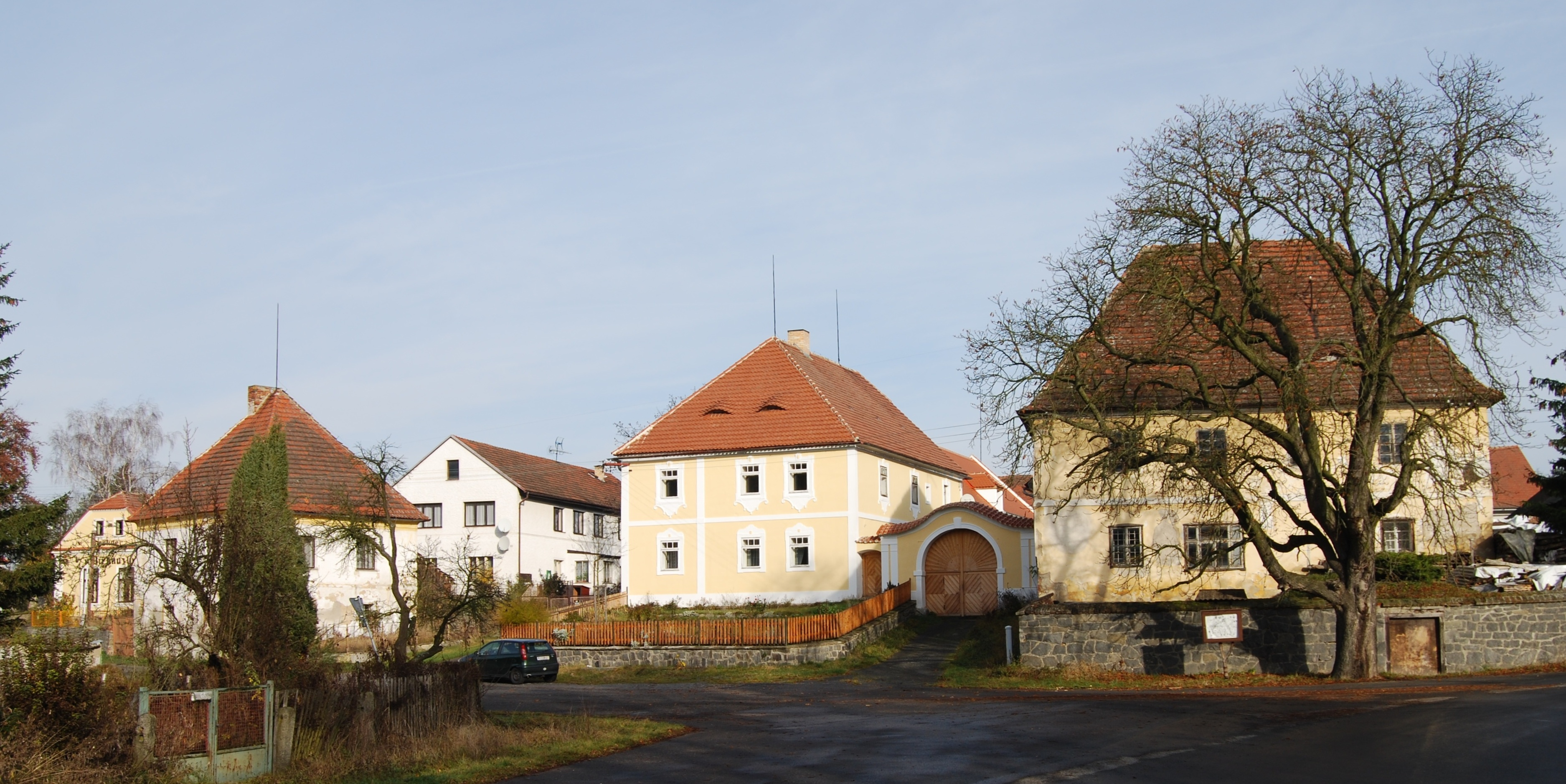 Drahenice village in Příbram District, Czech Republic.